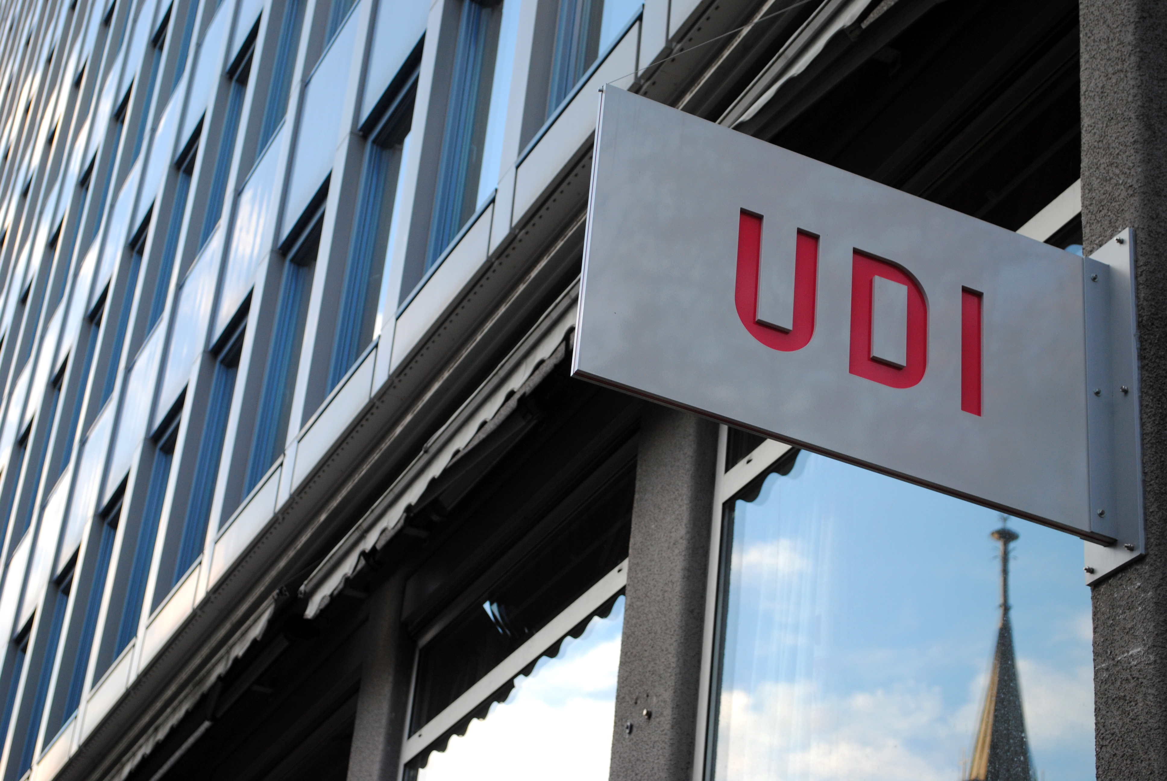 Logo of the Norwegian Directorate of Immigration (Utlendingsdirektoratet, UDI) on a sign in Oslo.